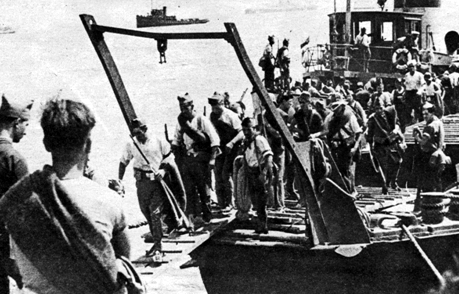 Landing at Punta d'Amer, within a Landing Craft K